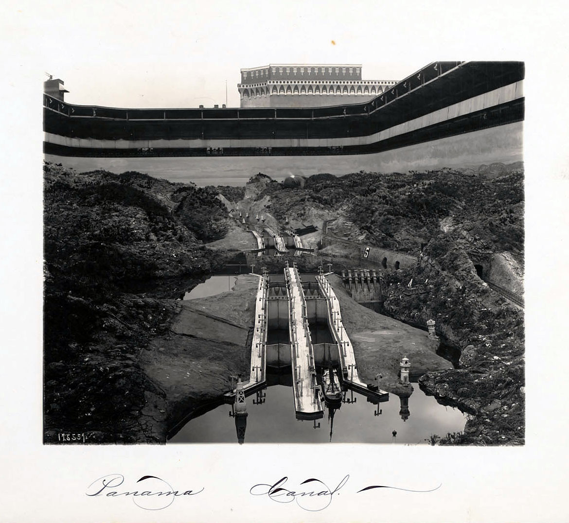 "Panama Canal", Panama-Pacific international exposition 1915 in San Francisco. This is a picture of the large scale model of the panama canal installed at the exposition. It was the main attraction.